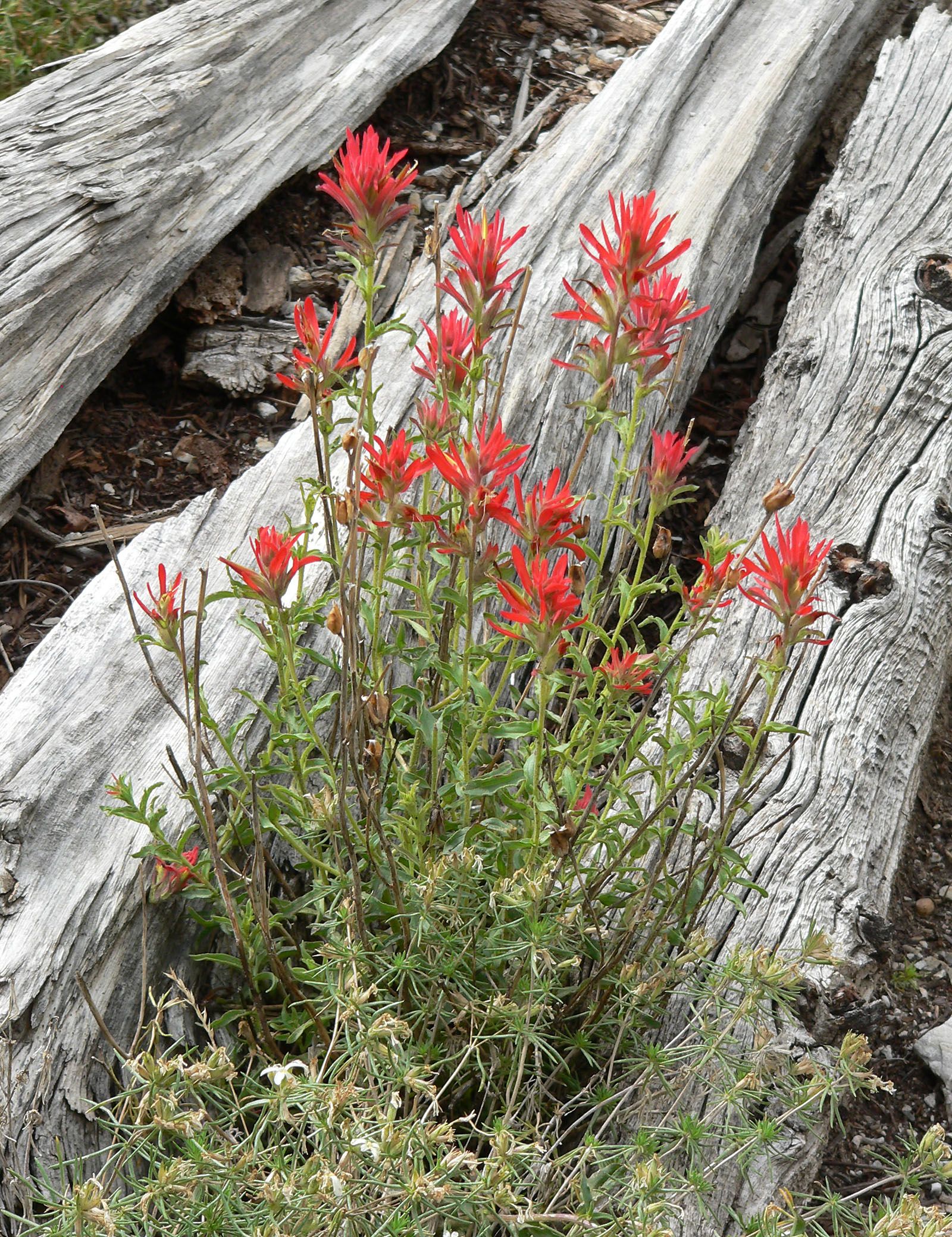 Castilleja applegatei subsp. martinii on North Loop trail east of Mummy Mountain, Spring Mountains, southern Nevada (elev. about 2800 m)